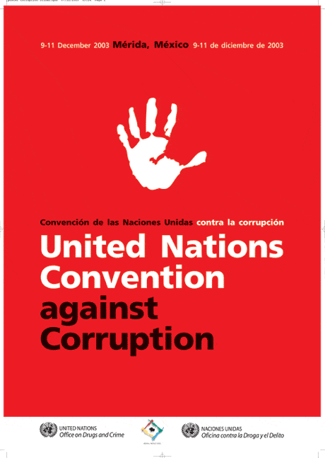 United Nations Office on Drugs and Crime, UNODC